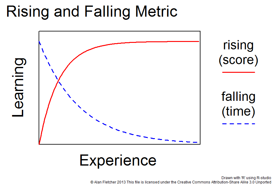 Learning Curve : Rising and Falling Metric